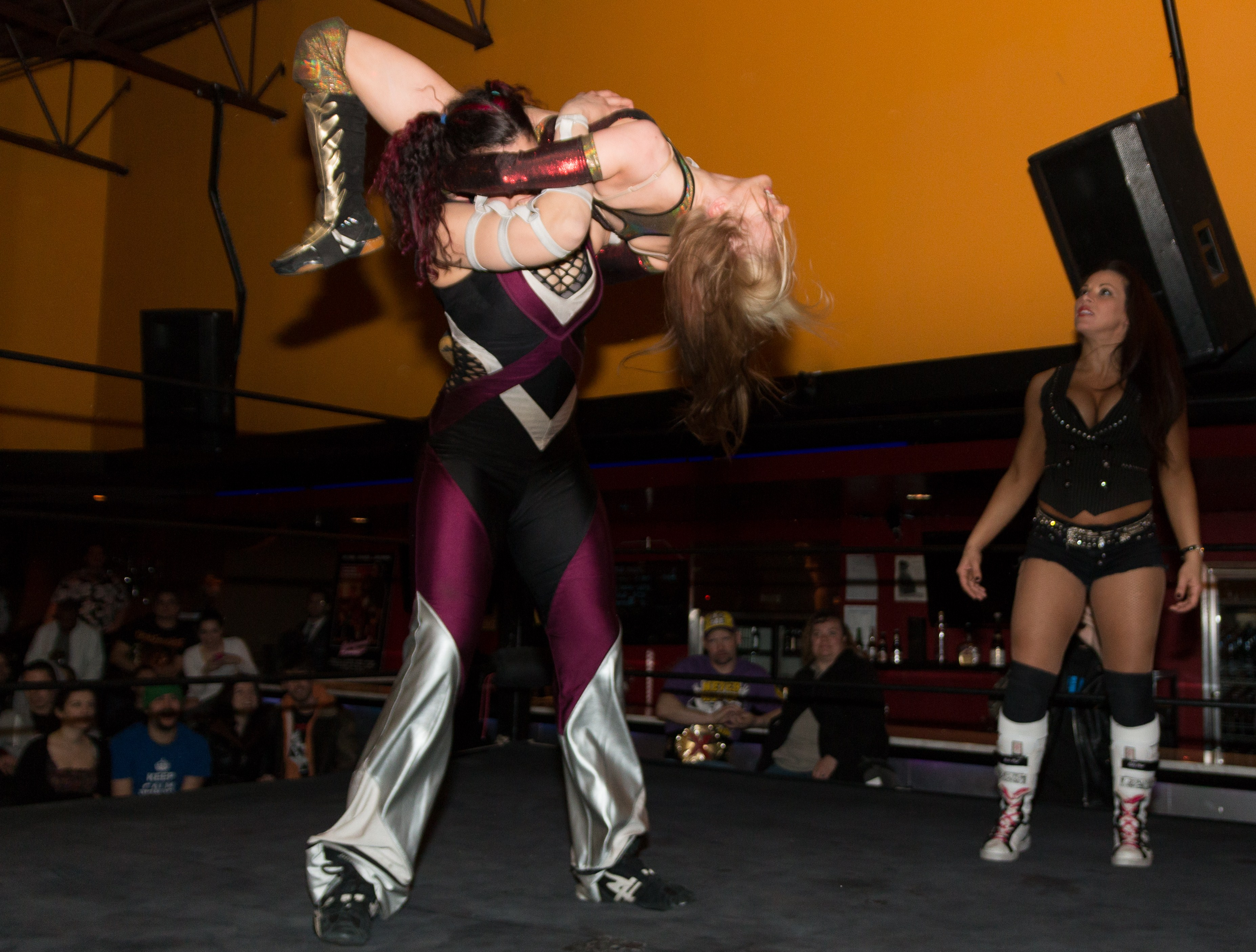 Vanessa Kraven executing a Canadian backbreaker rack on Xandra Bale